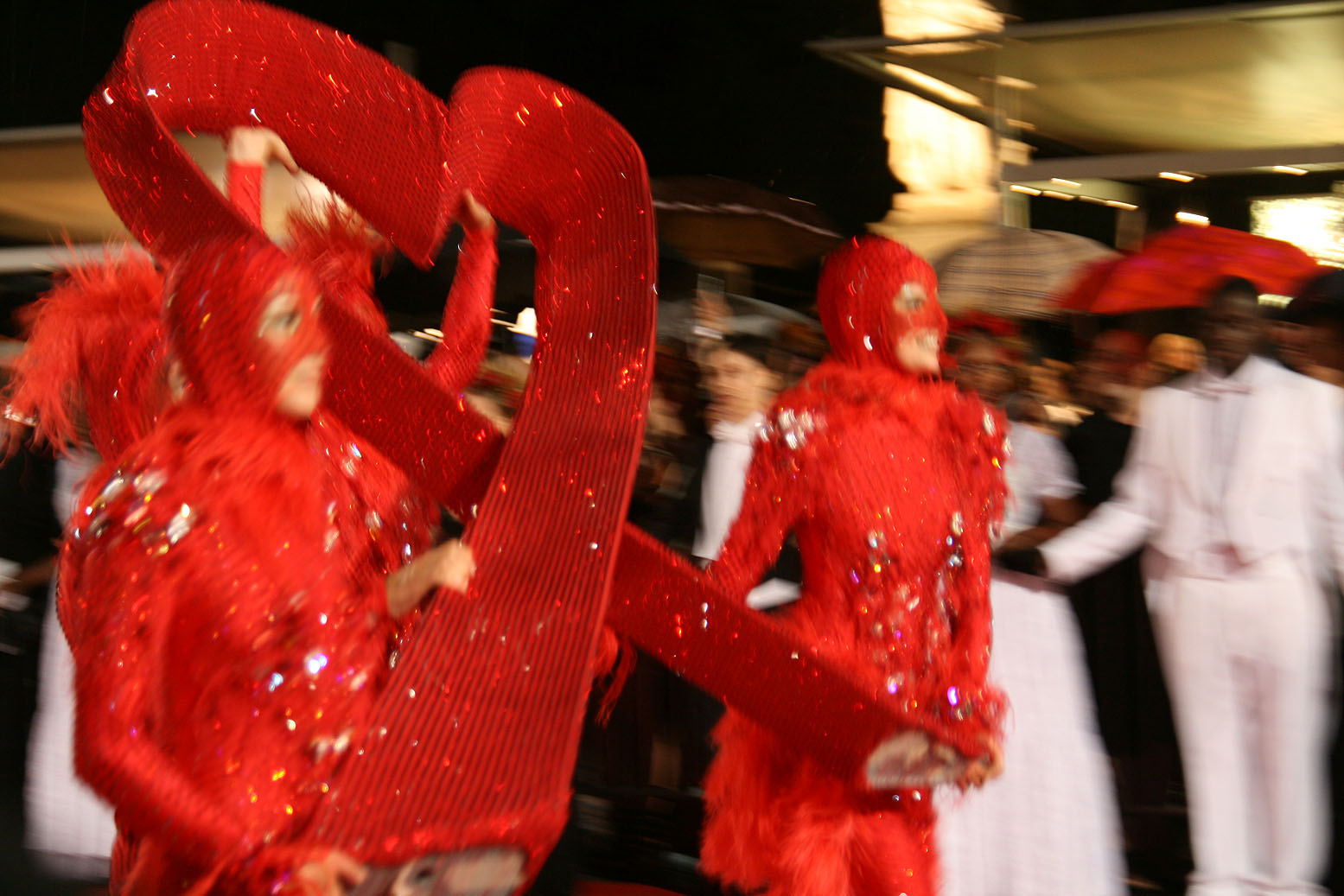 Opening show of the Life Ball 2010 - a thunderstorm approaching.